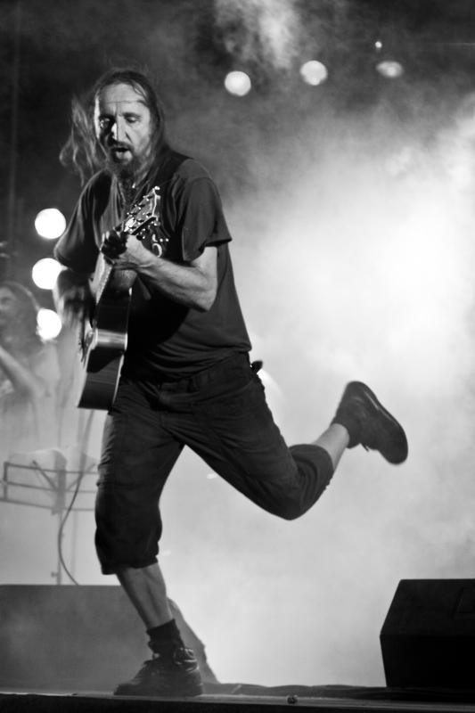 Enrico "Erriquez" Greppi in concert with Bandabardò at Sonica Festival 2009 in Sant'Agata Bolognese